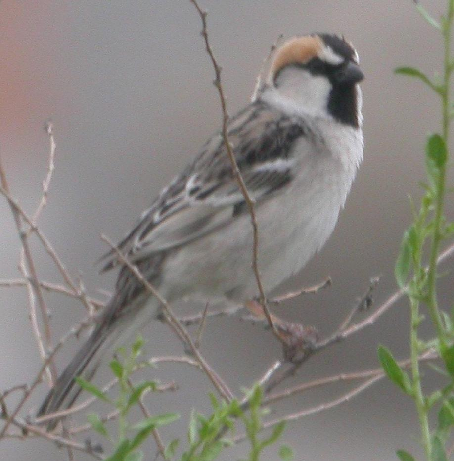 A male Saxaul Sparrow in a cemetery in southeastern Kazakhstan. Original image has been flipped.